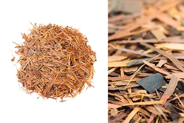 Incas herbal tea